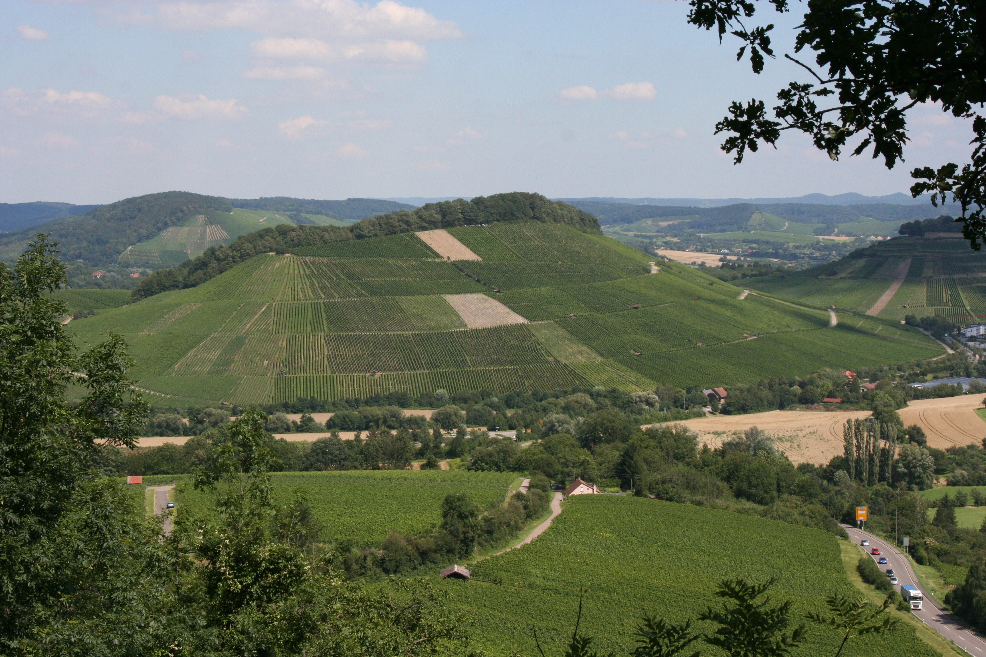 View from the Wartberg hill to the Schemelsberg hill in Weinsberg